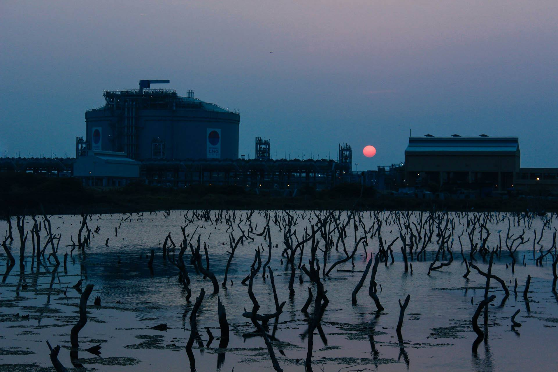 Sunset at LNG Termal